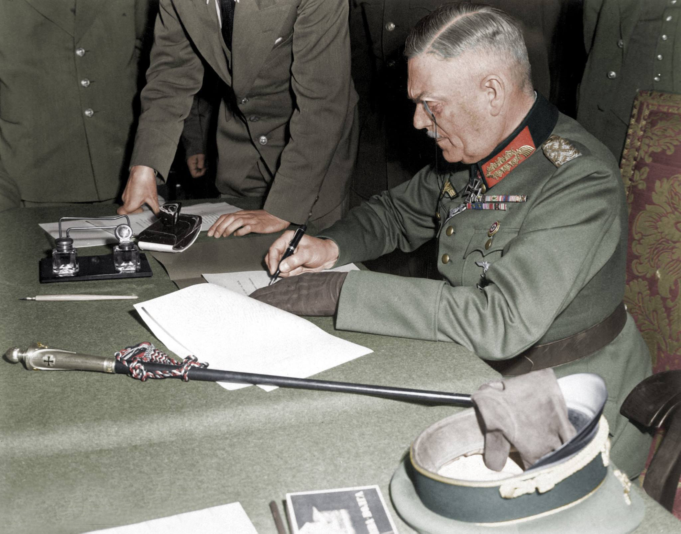 Field Marshall Wilhelm Keitel signing the unconditional surrender of the German Wehrmacht at the Soviet headquarters in Karlshorst, Berlin.